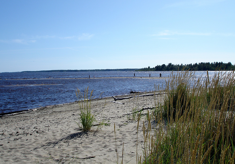 Örsten, where River Öreälven joins the Bothnian Sea. Nordmaling Municipality, Sweden.